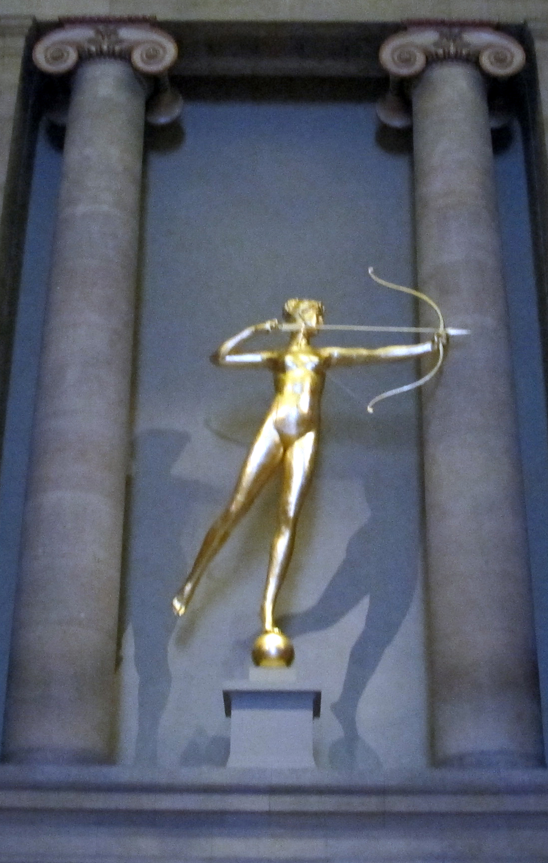 Diana of the Tower (1893), Augustus Saint-Gaudens, sculptor, Philadelphia Museum of Art, Philadelphia, Pennsylvania.